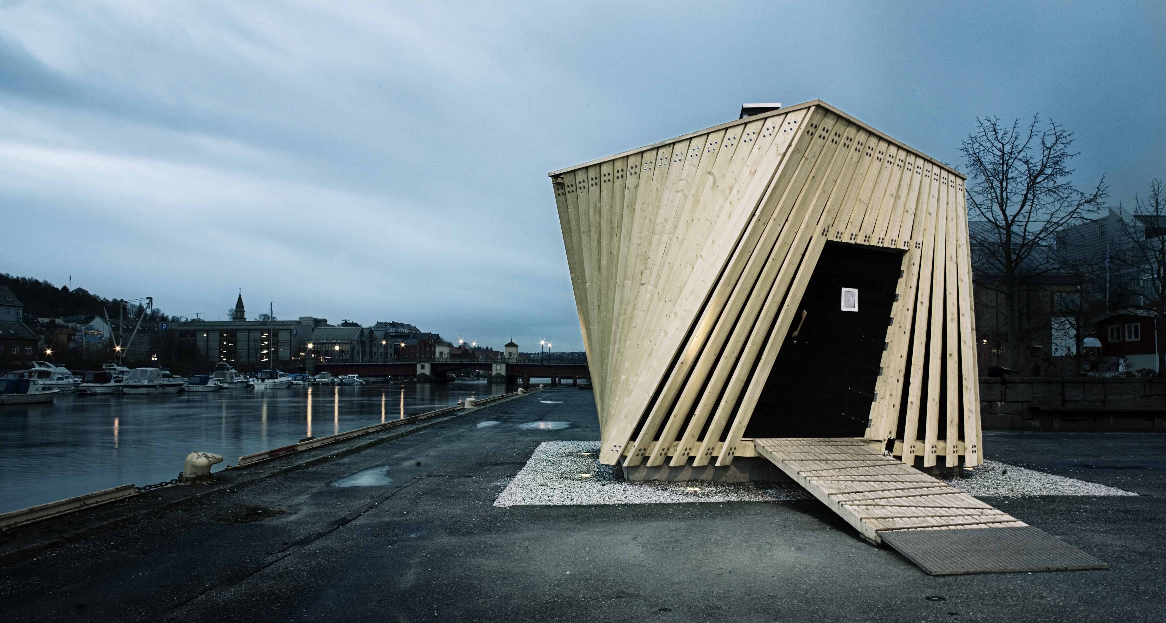 1-2-TRE is a academic cource for students of both architecture and construction at Norwegian University of Science and Technology (NTNU), Trondheim. After a competition during the cource the students designed and planned a lifesize camera obscura on the corner of the canal and the Nidelv river, using 3D cutter technology.